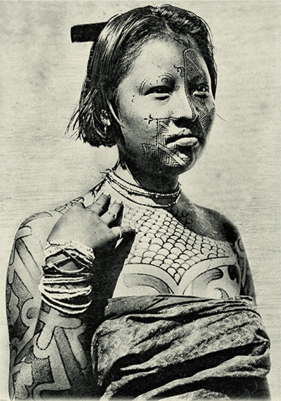 Kadiwéu woman from Nabileque River, Brazil. Photo from the Boggiani collection. Published in 1892/ Dr. R. Lehmann-Nitsche.